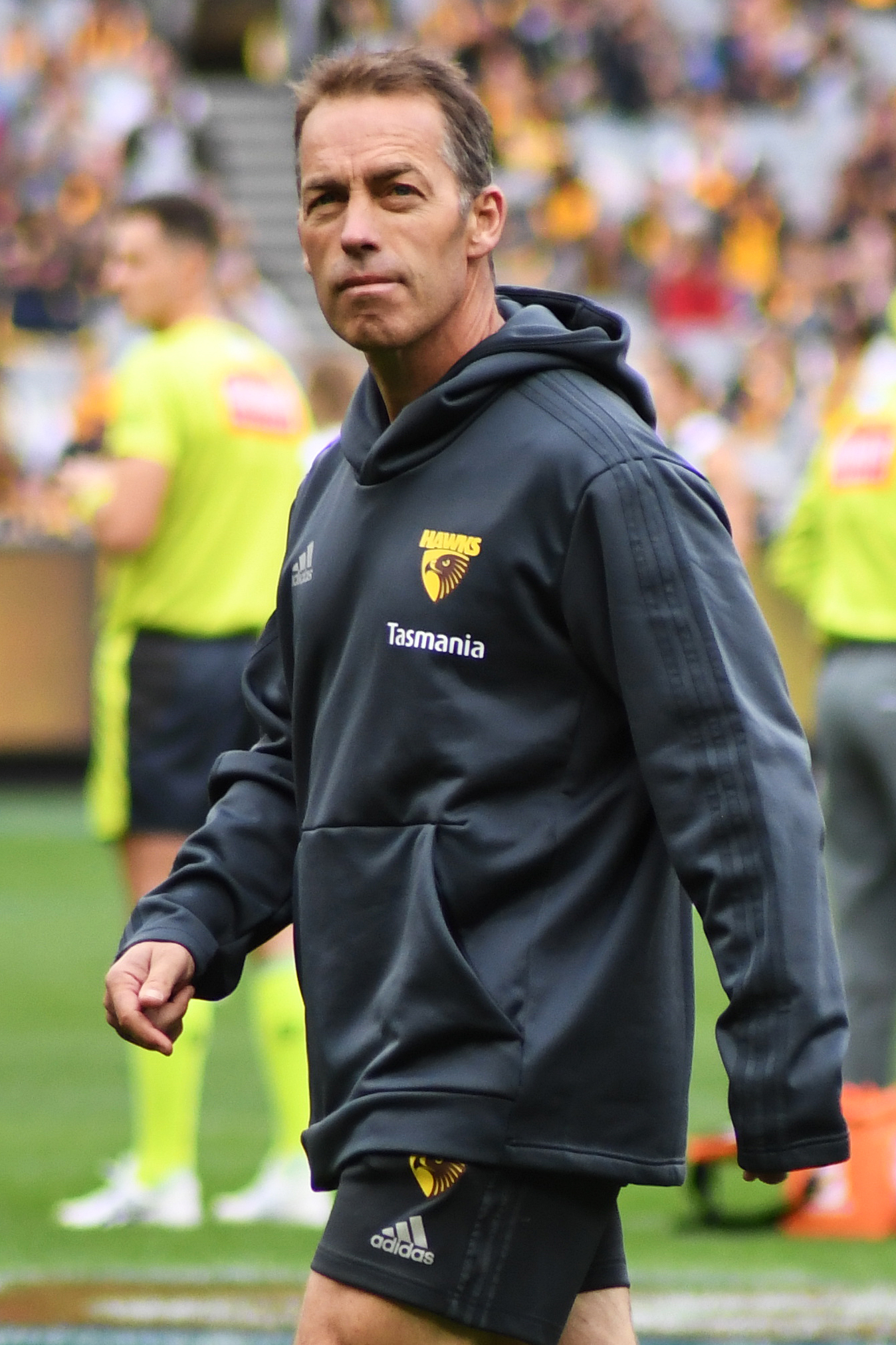 Alastair Clarkson of Hawthorn during the 2019 AFL round 5 match between Hawthorn and Geelong at the Melbourne Cricket Ground on Monday, 22 April 2019 in Melbourne, Victoria.